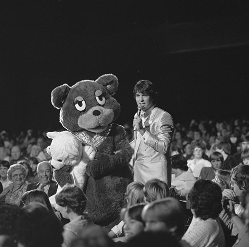 Bella Bear and Ron Brandsteder, in the Dutch television game show Showbizzquiz.